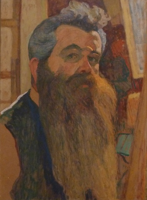 Sigismund Righini selfportrait 1914